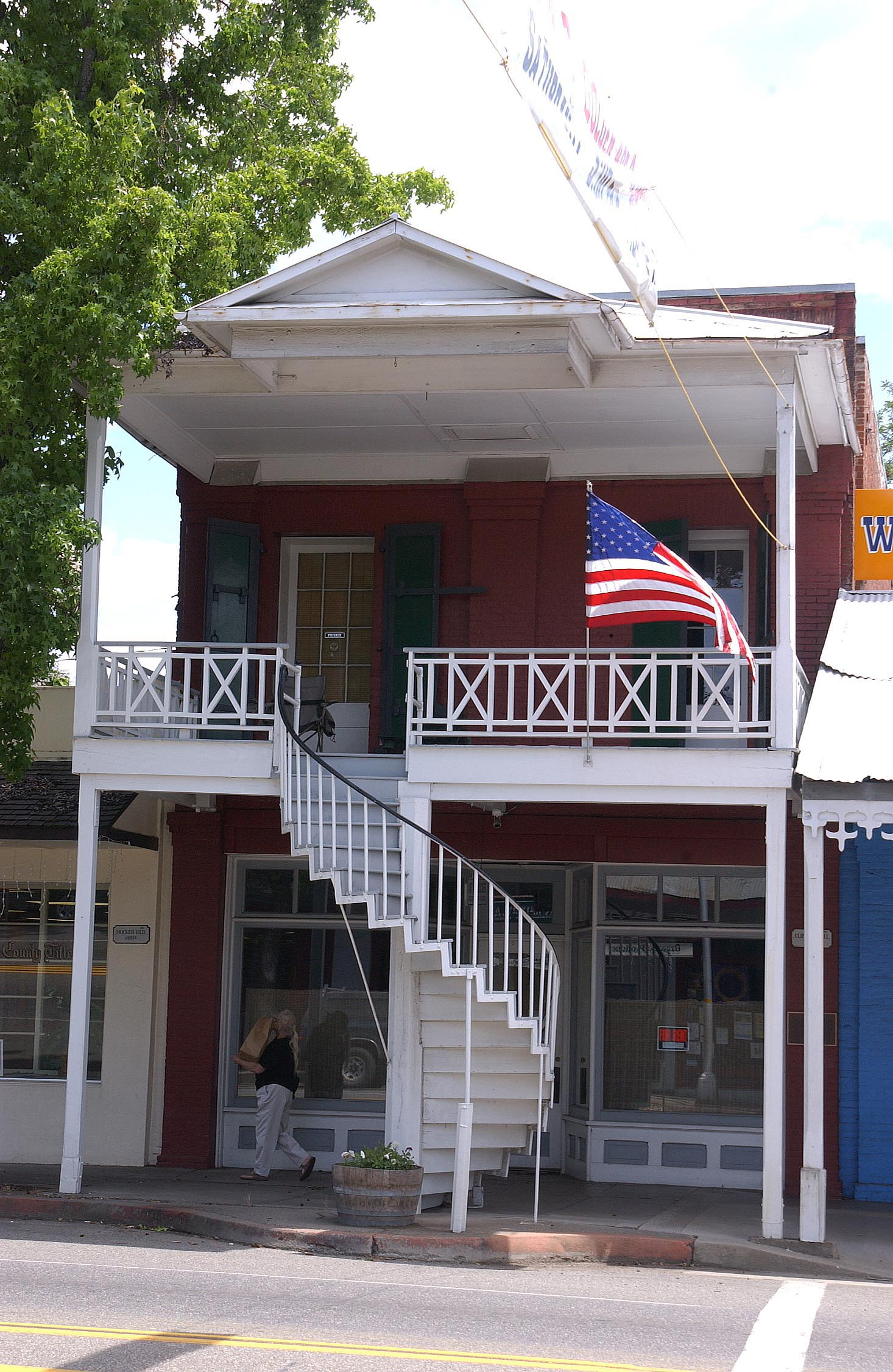 THESE ARE A PREDOMINANT PART OF THIS COMMUNITY'S ARCHITECTURE BECAUSE OF SEPARATE OWNERSHIP OF UPPER AND LOWER FLOORS. THIS ONE PICTURED IS THE OLDEST ONE BUILT IN1860